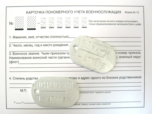 Dog tag (identifier)